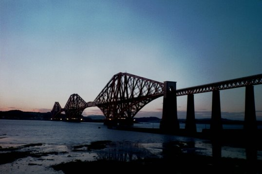 Forth Bridge, Firth of Forth, Edinburgh - a photo taken by myself and in the public domain.Renata 16:15 Nov 8, 2002 (UTC)